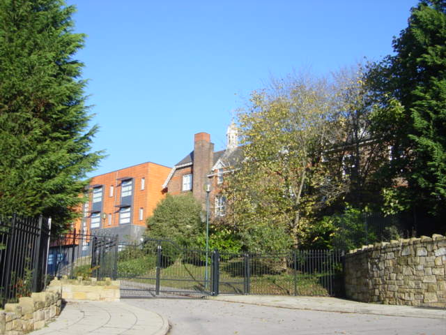 Upton Hall Convent School